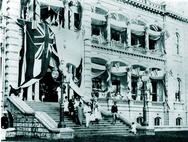 Photograph showing King Kalākaua on the steps of Iolani Palace during his 50th birthday Jubilee in 1886. King and Queen leading the way, Liliuokalani and her husband John Owen Dominis following.